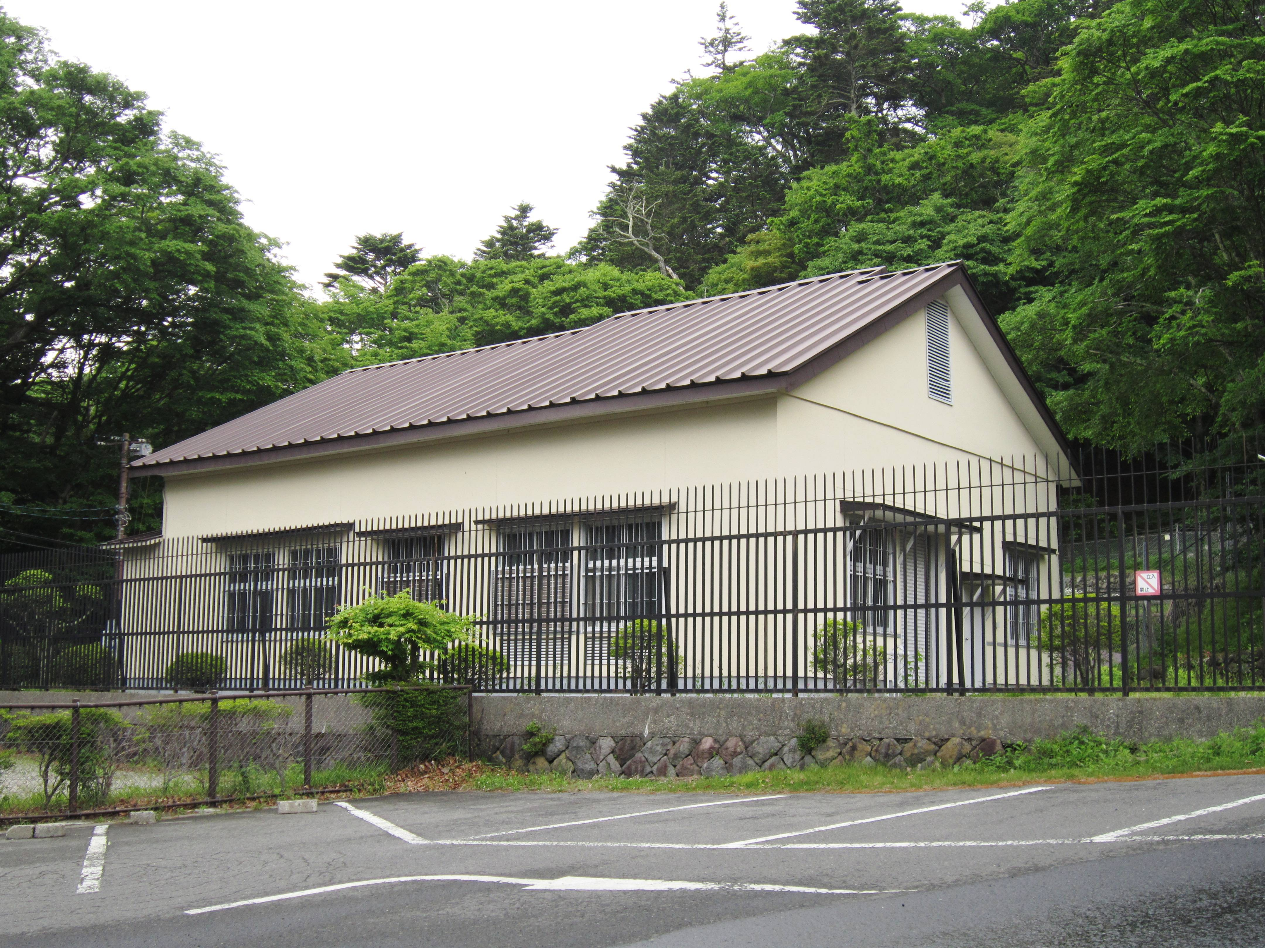 Shōbugahama hydroelectric power station.